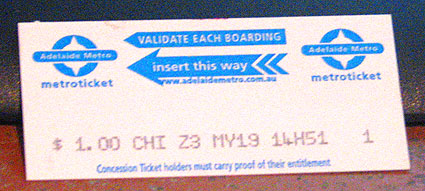 Adelaide Metro child single-trip ticket, used on O-Bahn Busway